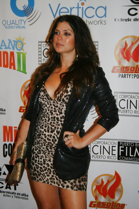 Janina mi verano con amanda